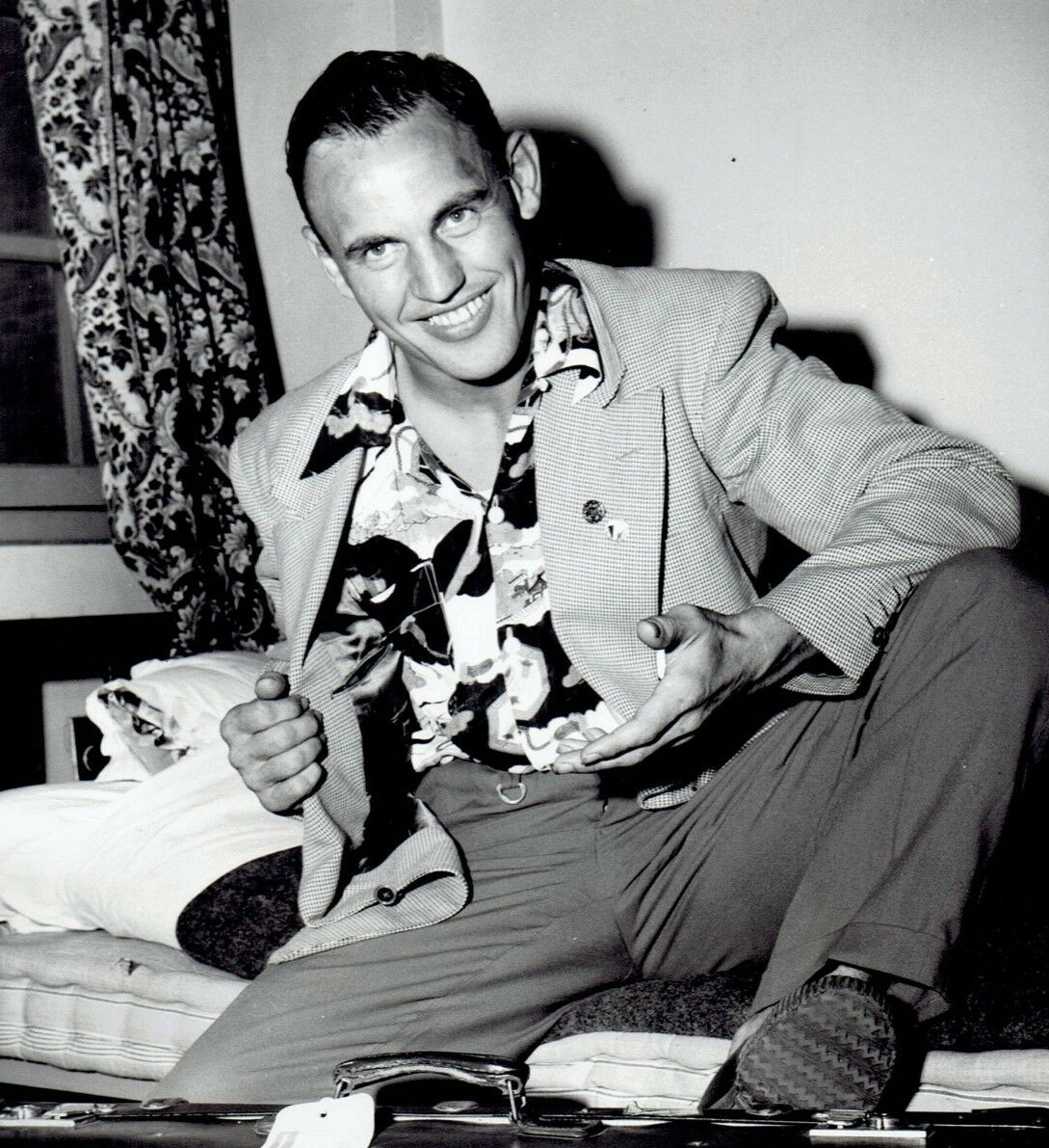 1954 Original Photo by UNITED PRESS PHOTOGRAPHER AKIRA SEKIGUCHI Henrik Hansen, showing his empty men's sports coat, is Denmark's lone entry in the World Amateur Wrestling Championships at Tokyo, Japan, explains how he arrived penniless in the Japanese capital. Hansen, Silver Medal Winner in the Welterweight Division of the 1948 London Olympics Games, worked his way to Tokyo from Copenhagen on freighters, since transportation funds were not available. Hansen was a Danish sport wrestler. He was born in Frederiksværk. He won a bronze medal in Greco-Roman wrestling, welterweight class, at the 1948 Summer Olympics in London. Photo measures approximately 6.75 X 8.75 inches.